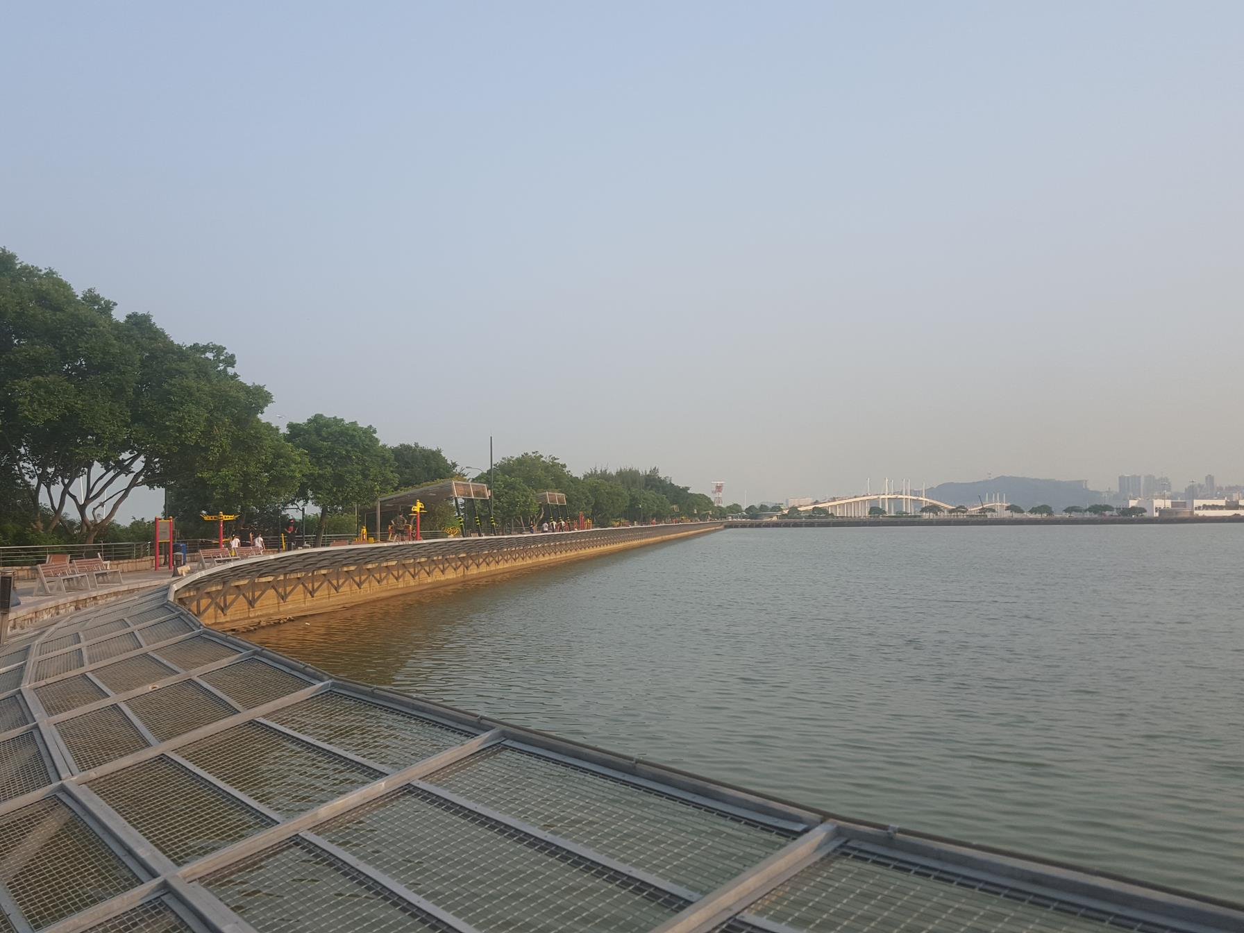 ZAPE Reservoir